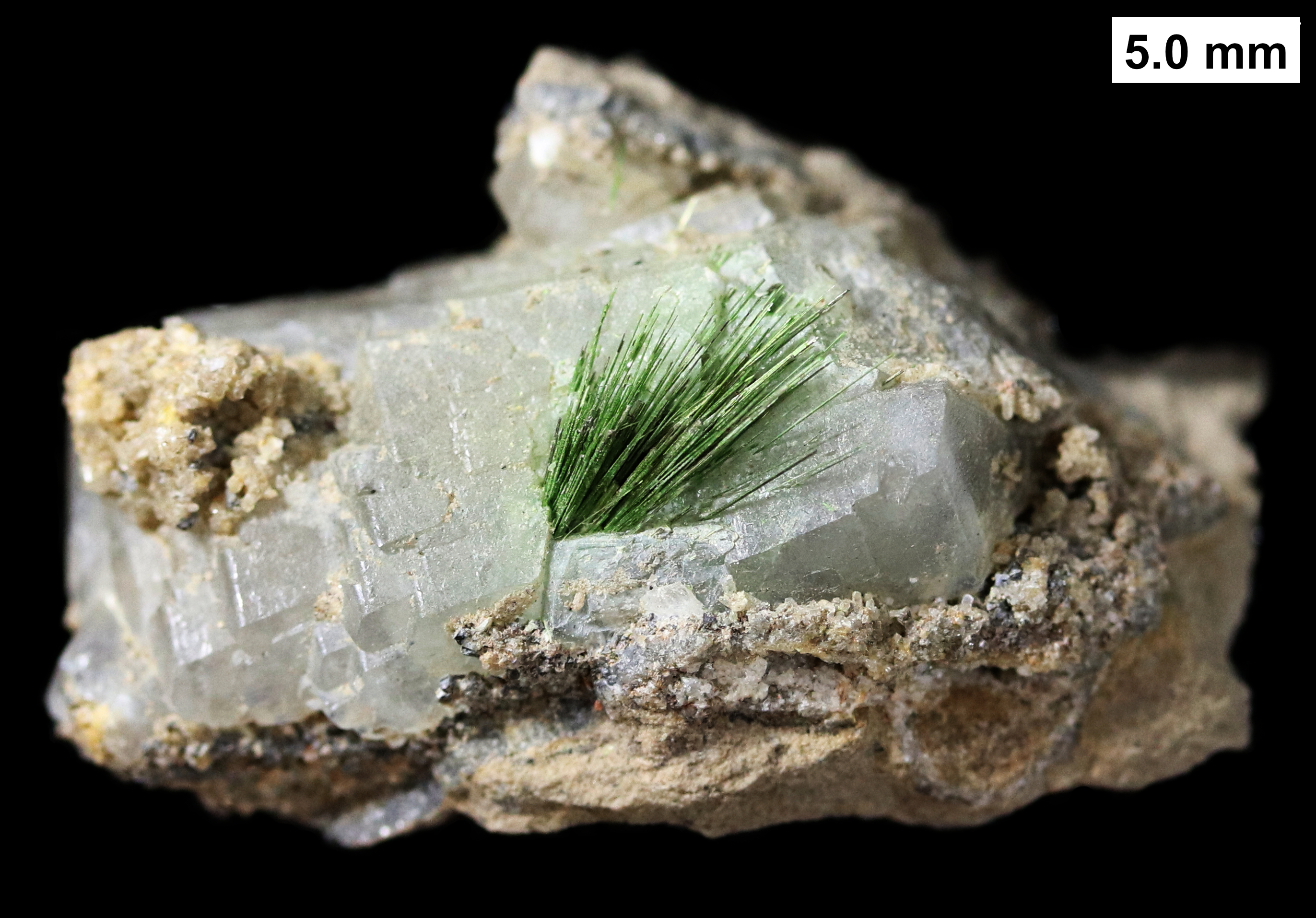 Calcite-millerite association; Middle Devonian; Milwaukee Formation; probably Berthelet Member; Milwaukee County, Wisconsin; MPM Mi20590; collected by K.C. Gass; photograph originally published in K.C. Gass, J. Kluessendorf, D.G. Mikulic, and C.E. Brett, 2019. Fossils of the Milwaukee Formation: A Diverse Middle Devonian Biota from Wisconsin, USA. Siri Scientific Press, Manchester, UK.